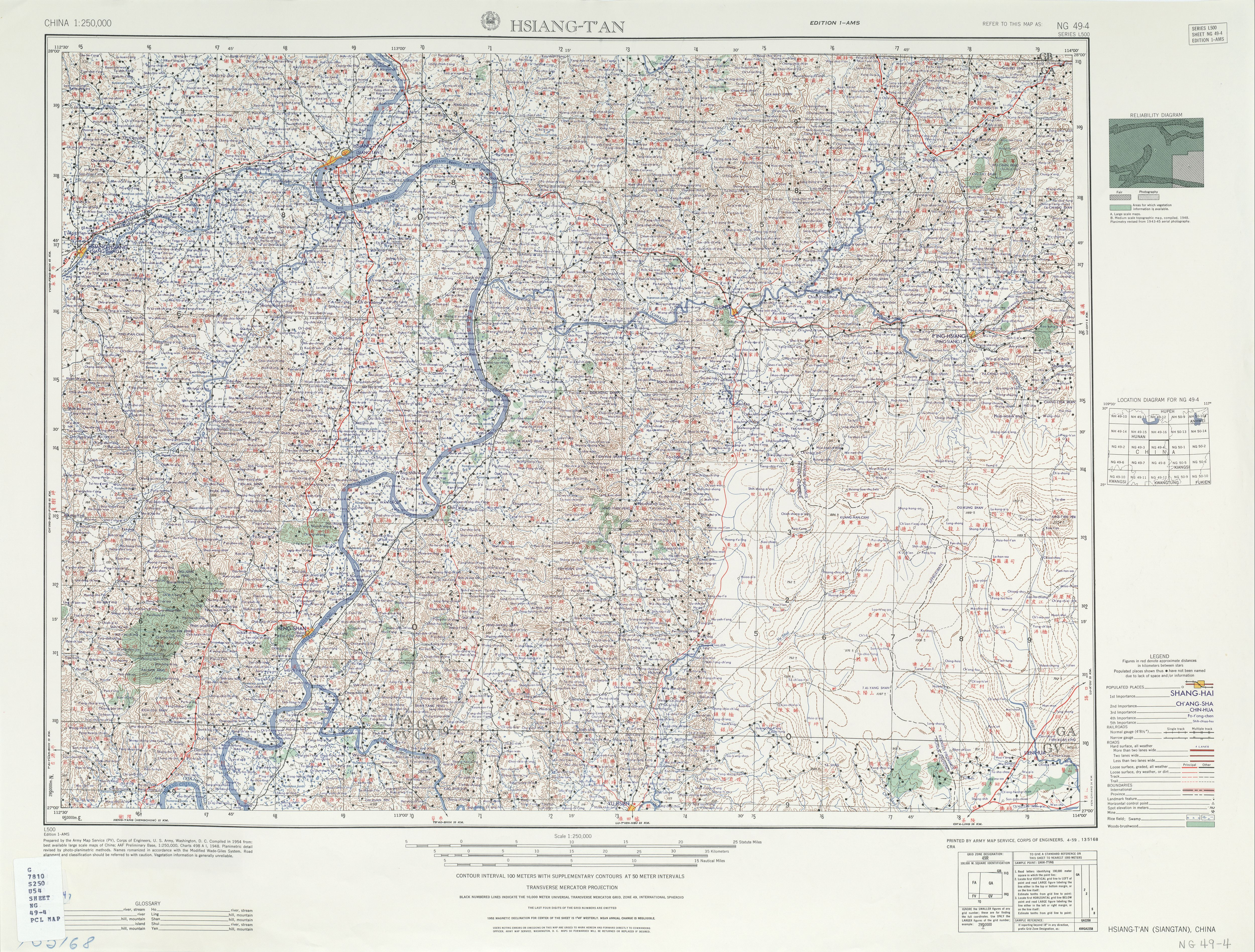 China AMS Topographic Maps